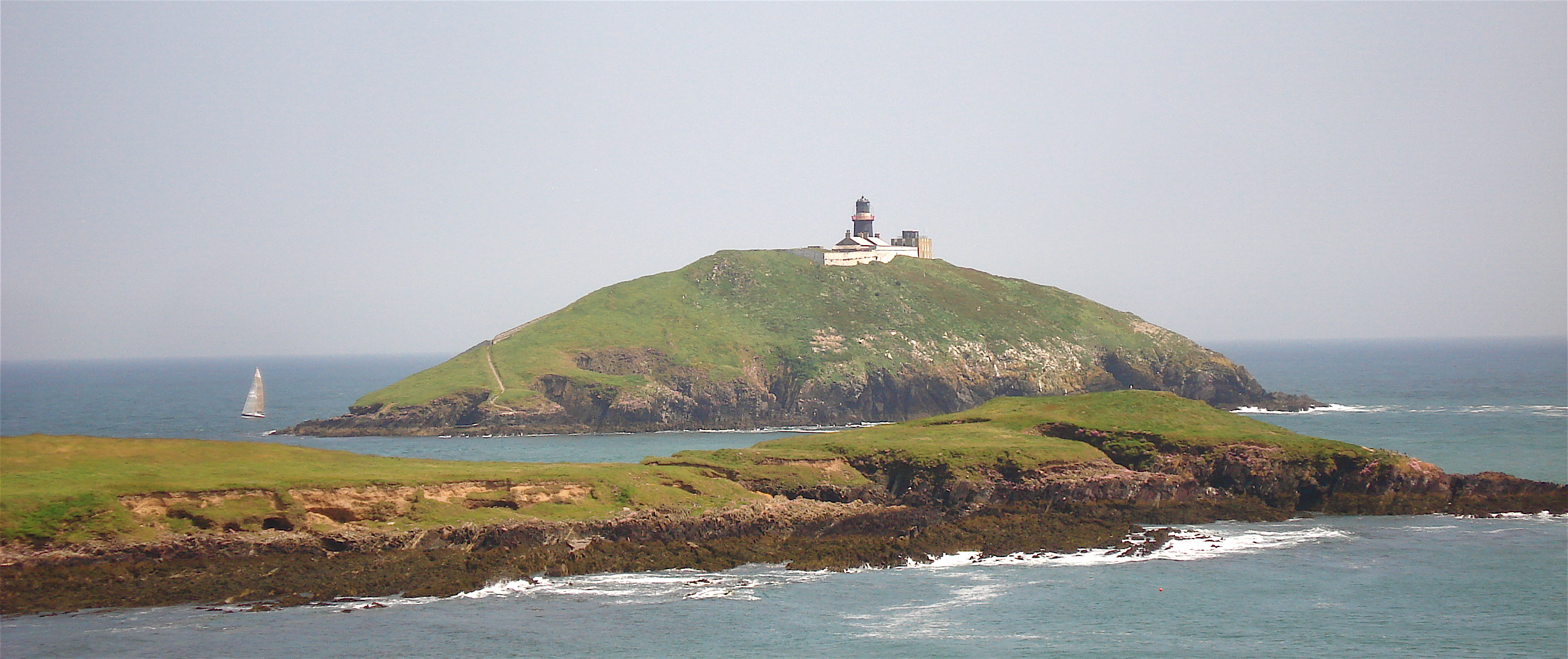 Ballycotton Lighthouse, photo taken from the Ballycotton Cliffs Walk